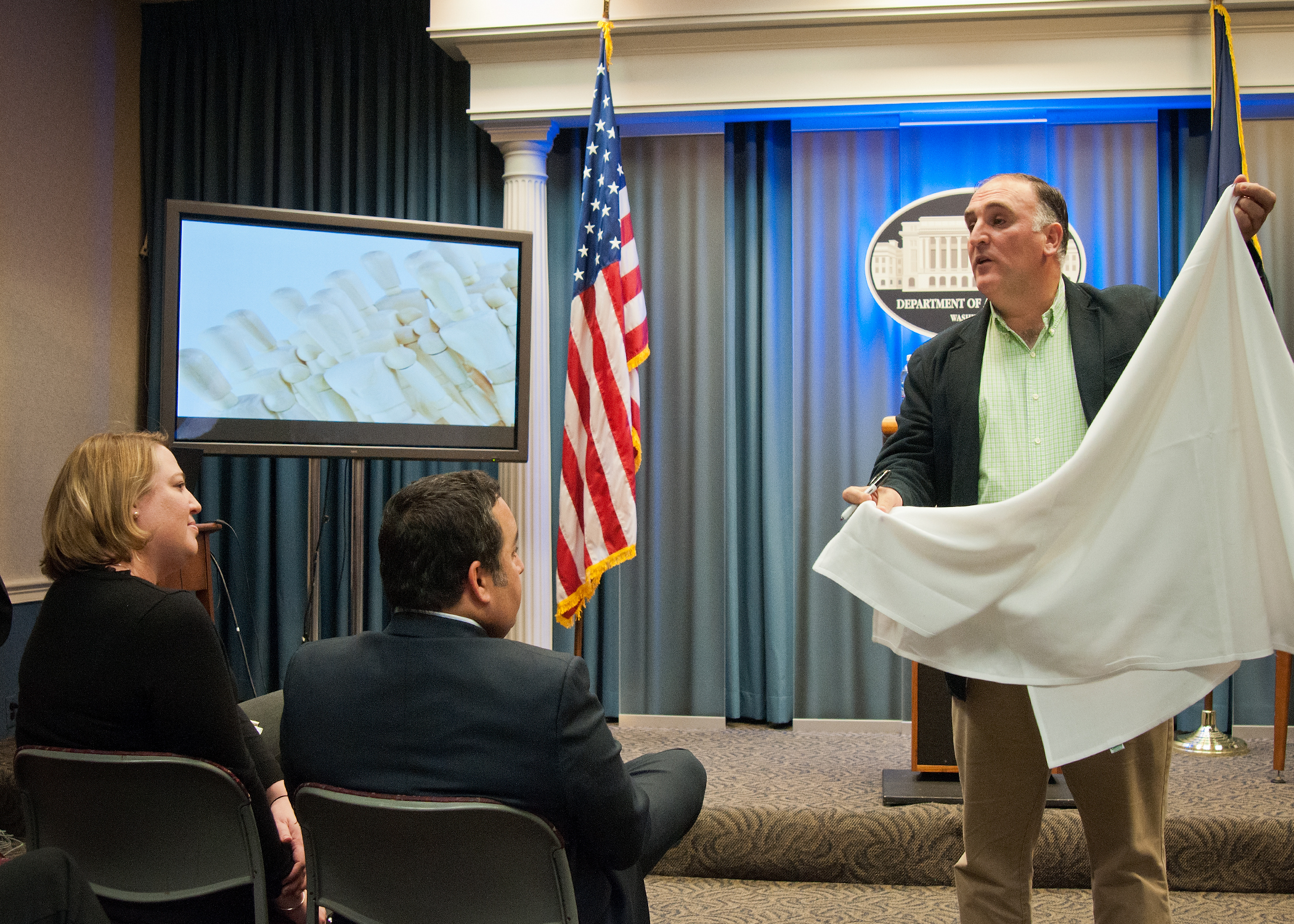 Chef Jose Andres, Chef/Owner, Think Food Group the guest speaker at the kick-off meeting of the United States Department of Agriculture White House Liaison Weekly Political Appointee Meeting for the New Year in Washington, DC, Thursday, January 20, 2012. Chef Andres used a tablecloth to demonstrate the traditional organizational chart and how to better utilize the structure of the chart. USDA photo by Bob Nichols.